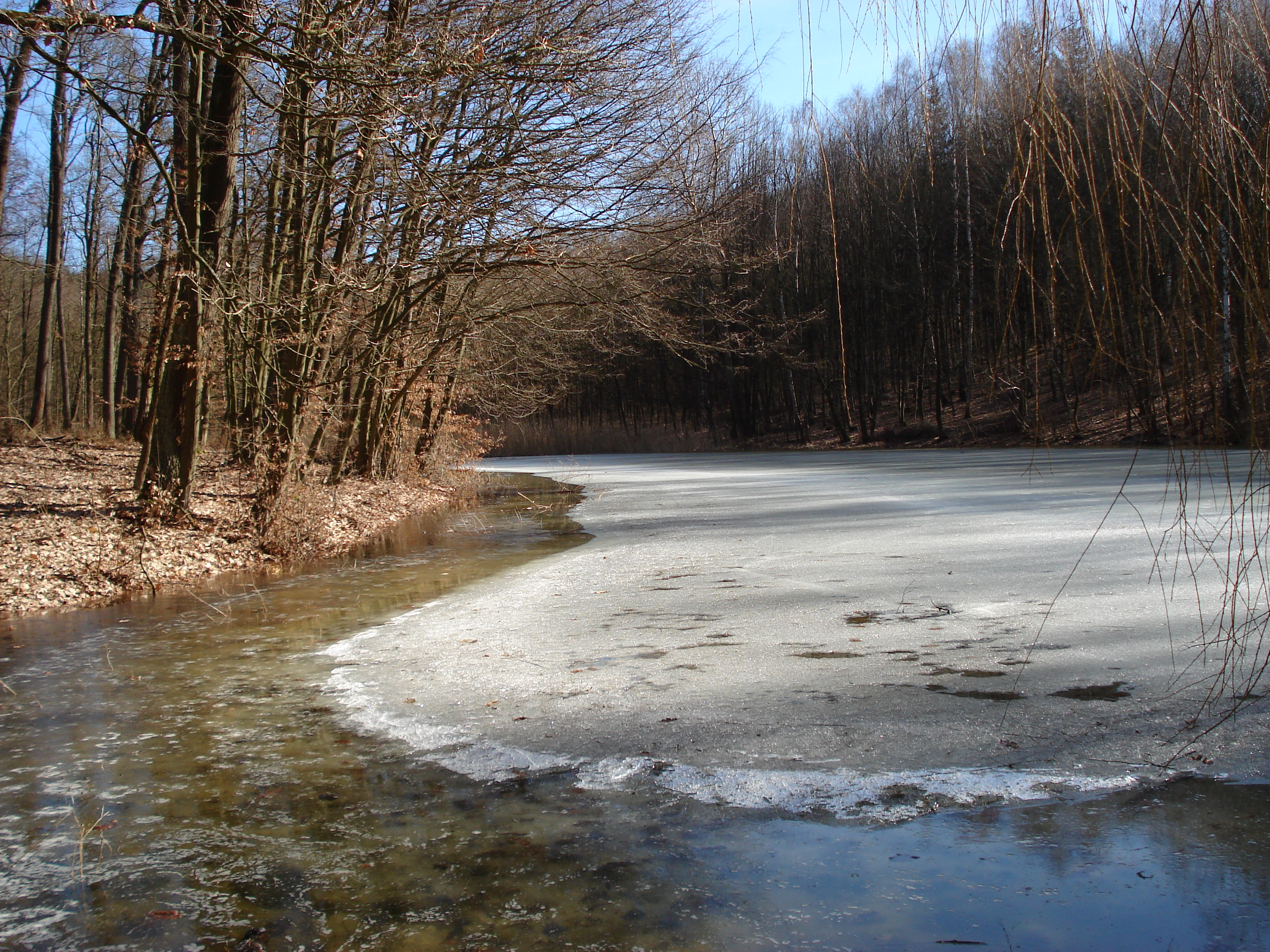 Natural monument Žlunické polesí in Jičín District, Czech Republic